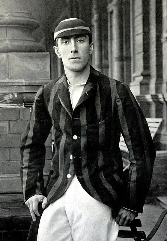 Sport, Cricket, Circa 1895, Hugh Richard Bromley-Davenport, Cambridge University, (1892-1893) and Middlesex, (1896-1898), He played for England (1895-1899) and was only one of a few players who played in glasses